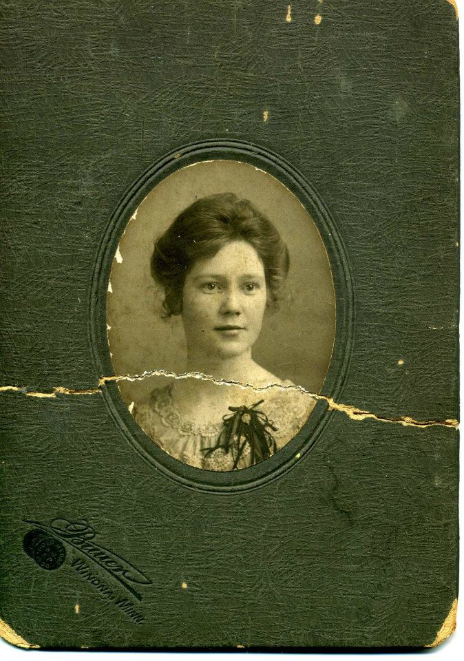 Portrait of my great grandmother, Elsie Ada Hennessy. She was a member of the Daughters of the American Revolution and is listed in this book: Picture taken about 1900.